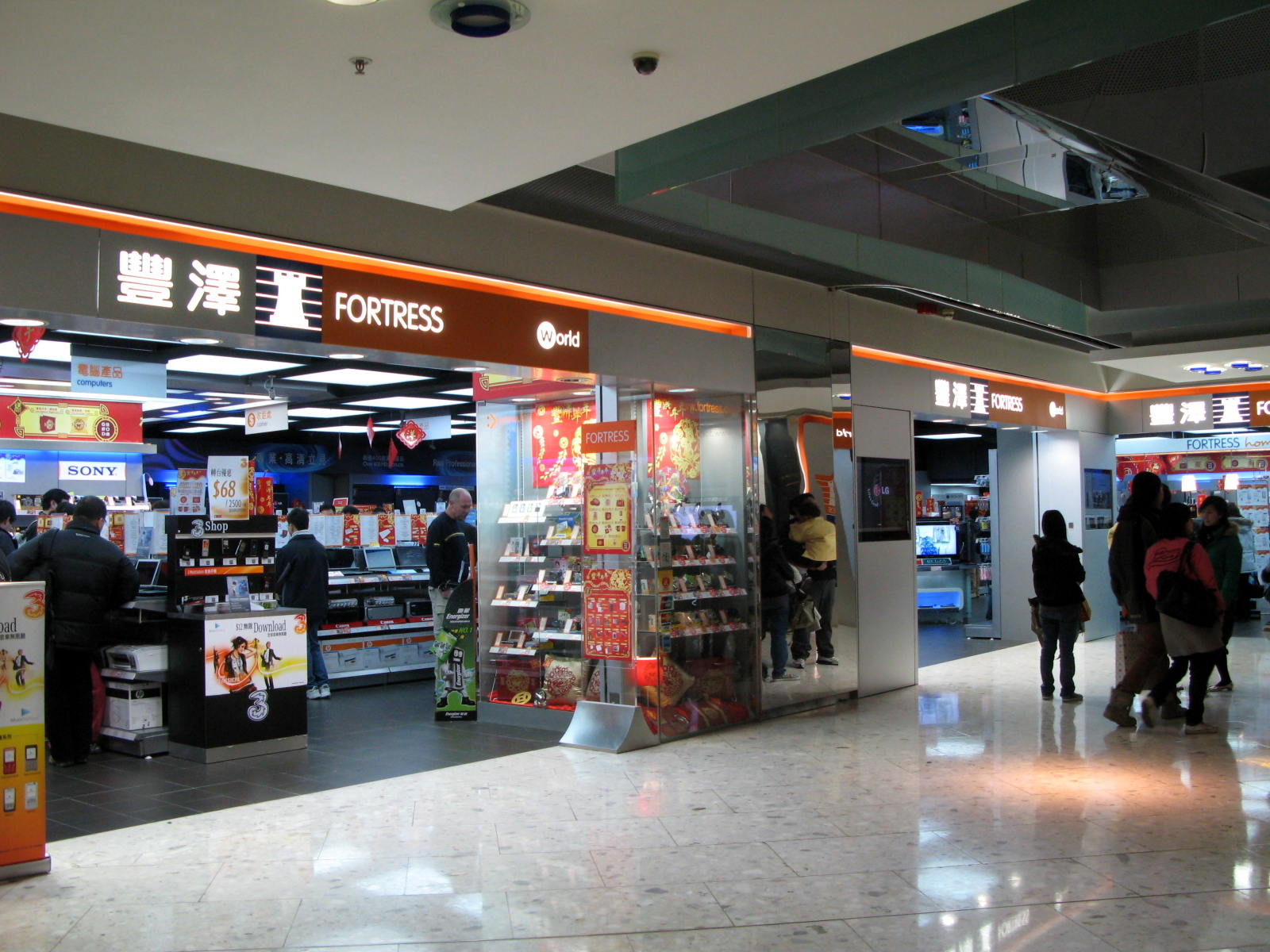 Fortess in Citygate Outlet